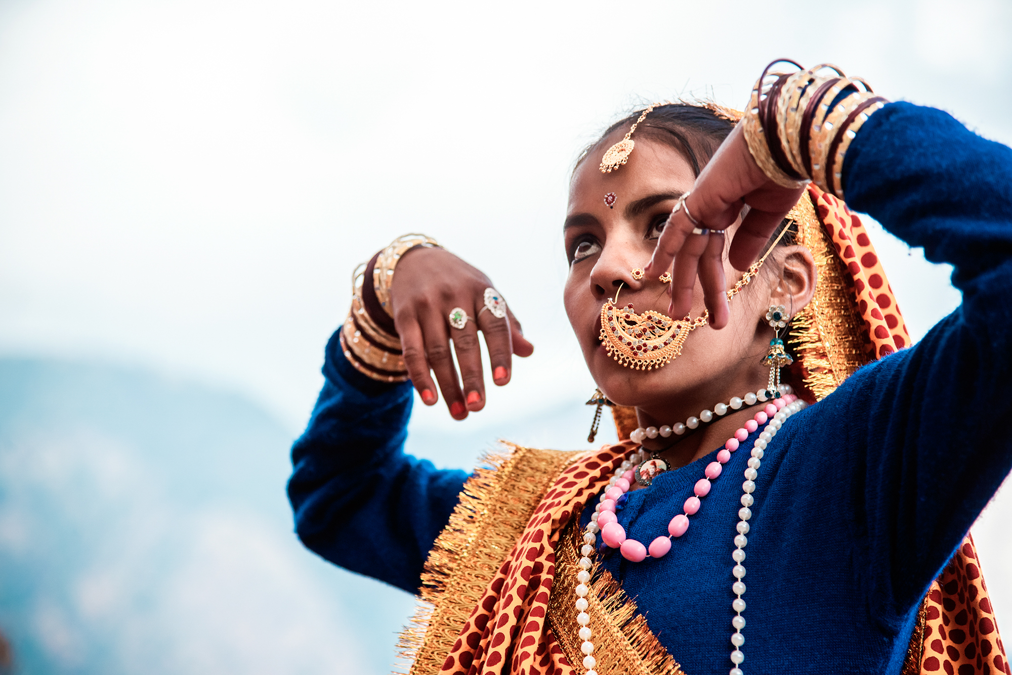 This is a kumaoni girl who performing In a function This photo has been taken in the country: India